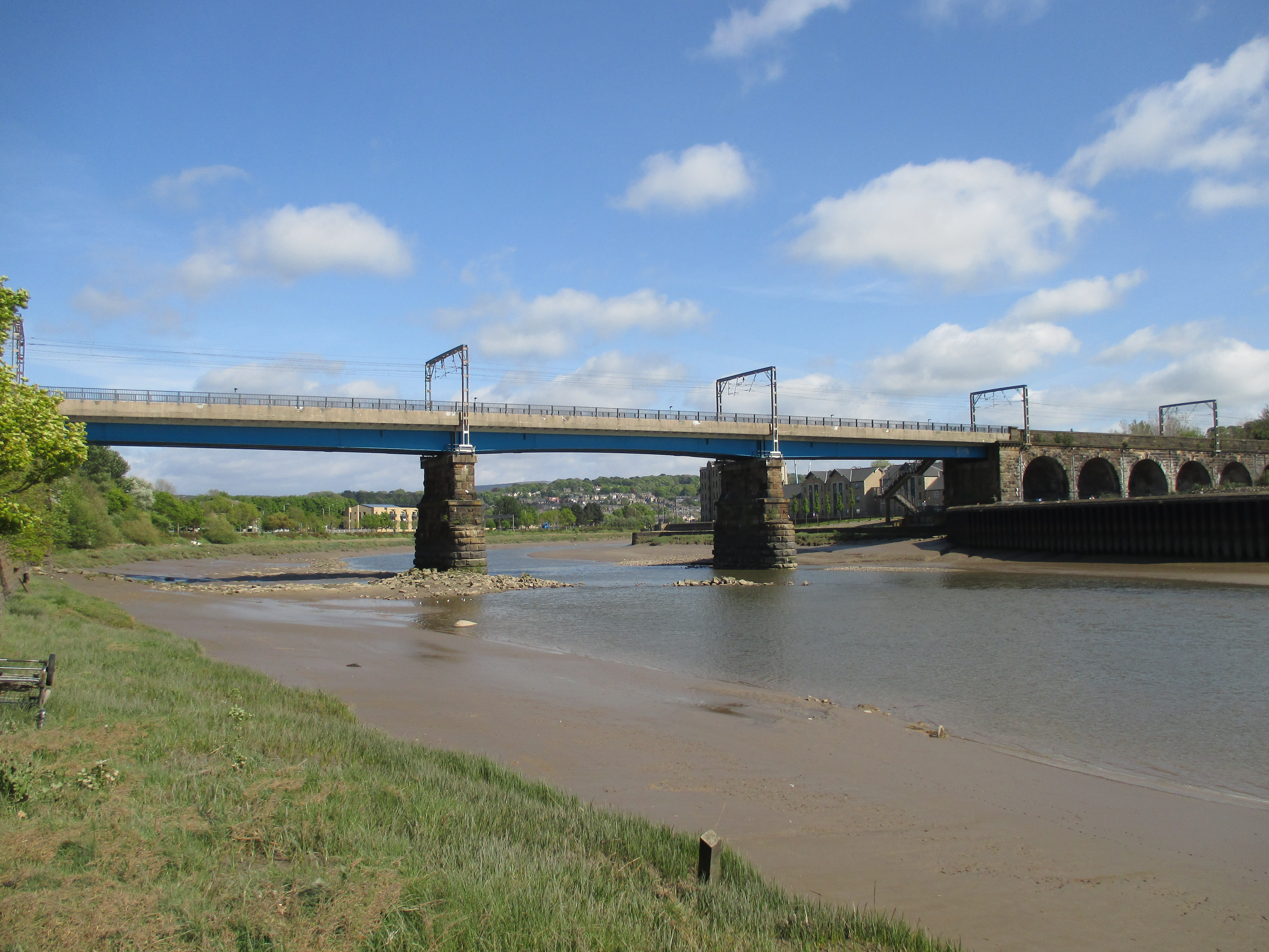 Carlisle Bridge, Lancaster, Lancashire, carrying the London to Glasgow railway over the River Lune; seen from the west.